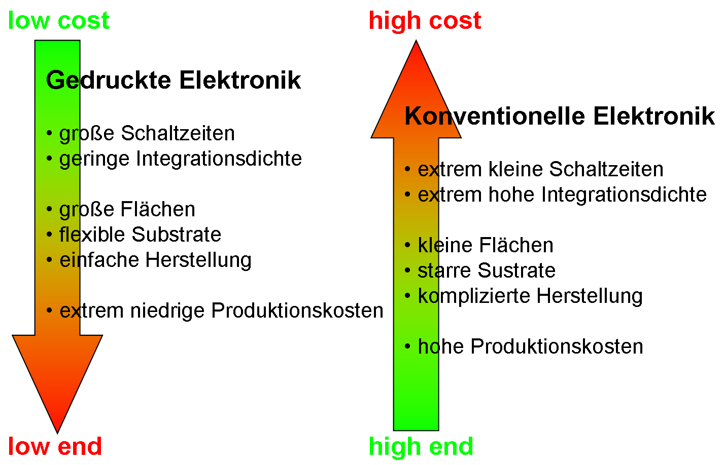 Printed and conventional electronics as complementary technologies.